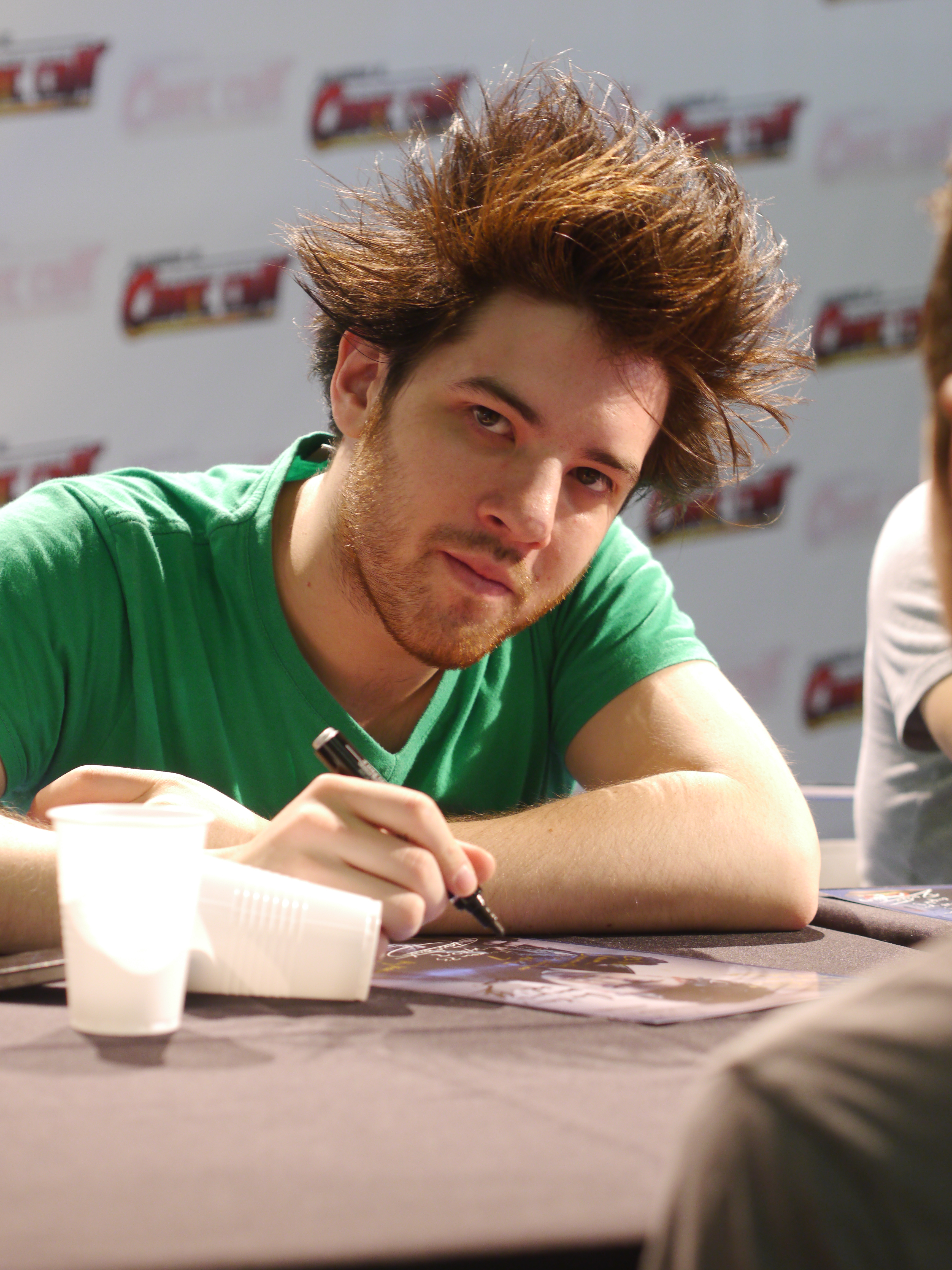 Japan Expo Festival, 14th impact